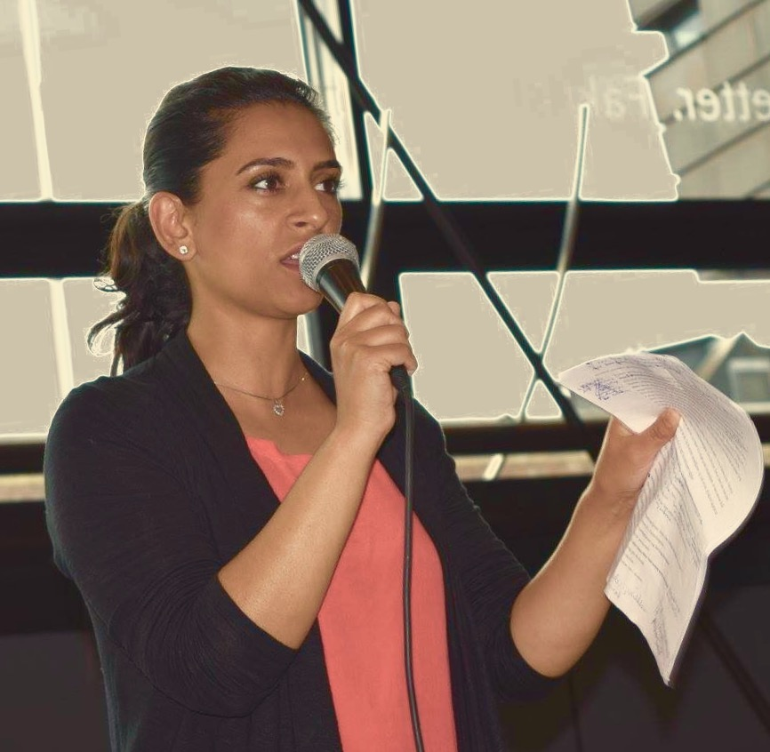 Aisha Naz Bhatti holding a speech at Kuben Upper Secondary School